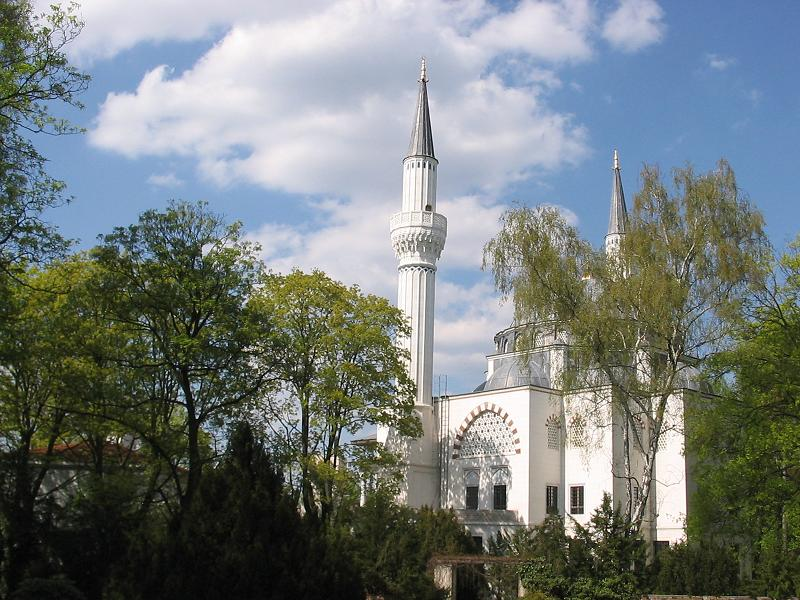 The Sehitlik-Moschee is a mosque on the Islamischen Friedhof (cemetery of islam) in Berlin-Neukölln. The laying of the foundation stone was in 1999.